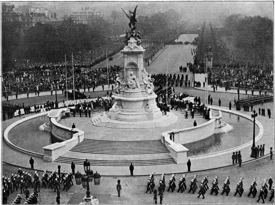 "Inauguration du Monument de la reine Victoria, le 16 Mai": unveiling by King George V on May 16, 1911. [L’Illustration, 27 May 27, 1911, p. 122]. Levels adjusted.